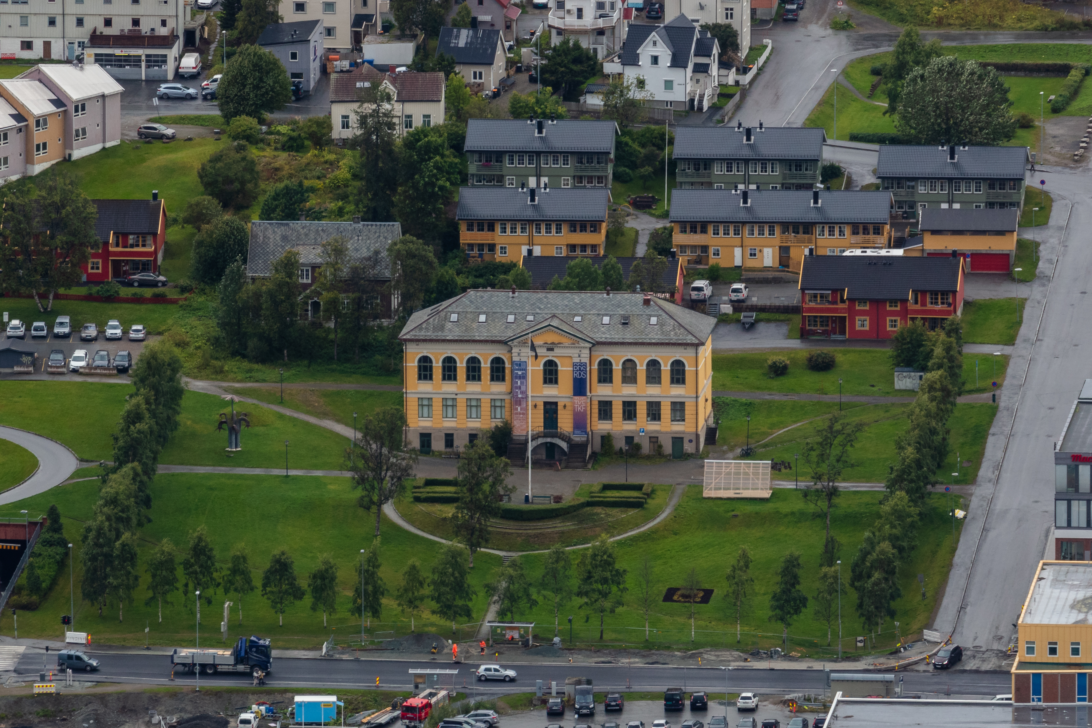 Center of contemporary art, Tromsø, Norway